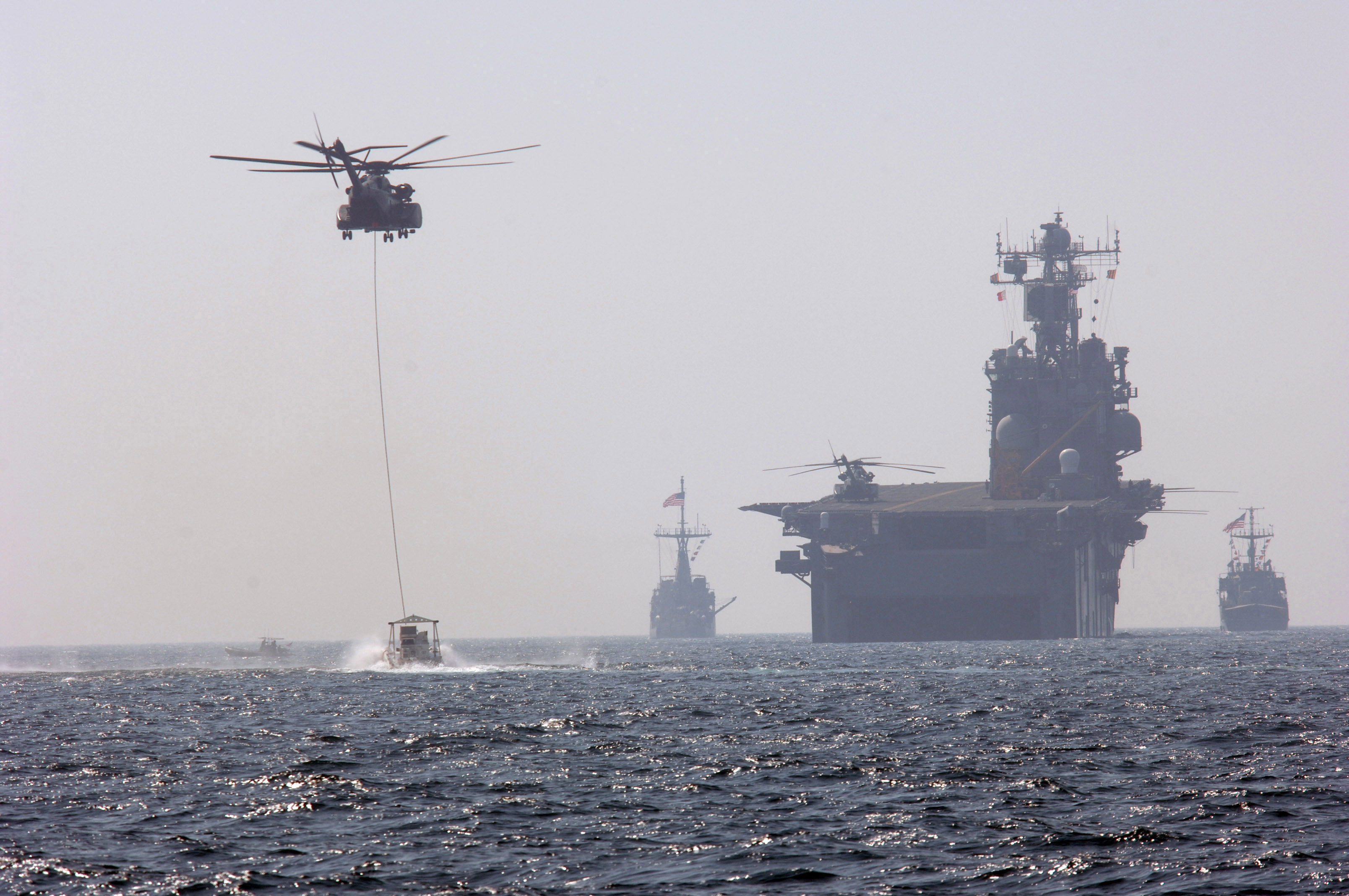 Persian Gulf (Nov. 6, 2006) - HM-53E Sea Dragon helicopters assigned to Helicopter Mine Countermeasure Squadron One Five (HM-15) demonstrate the mine sweeping capabilities of the Navy's MK-105 Magnetic Influence System, better known as the "sled," during operations with amphibious assault ship USS Saipan (LHA 2). Saipan is currently on deployment conducting maritime security operations (MSO) in support of the global war on terrorism. U.S. Navy photo by Mass Communication Specialist 2nd Class Justin K. Thomas (RELEASED)